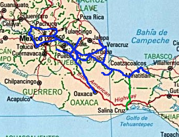 Map of the Ferrsour